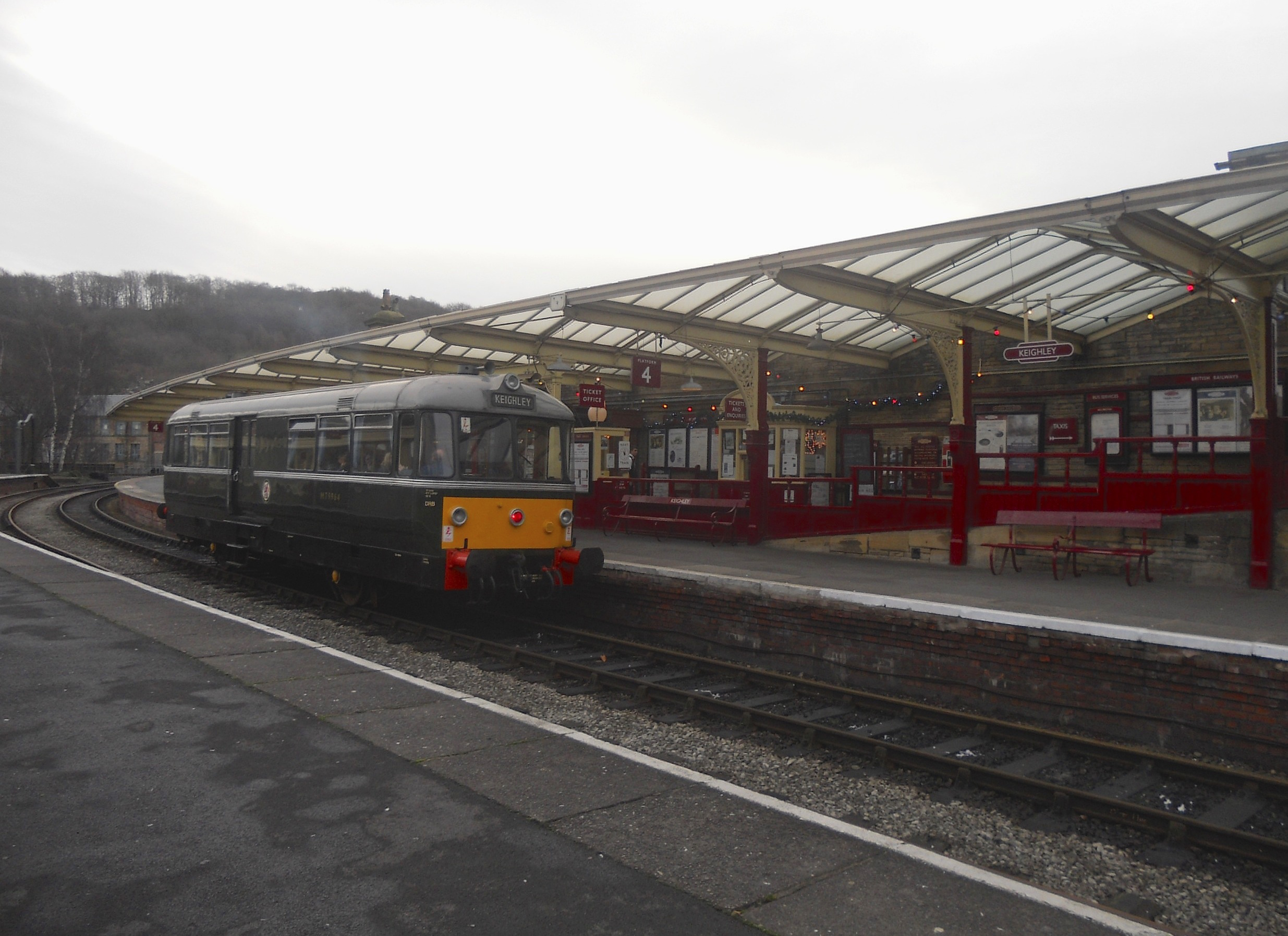 Keighley KWVR Station with Diesel Railbus on a morning service to Oxenhope